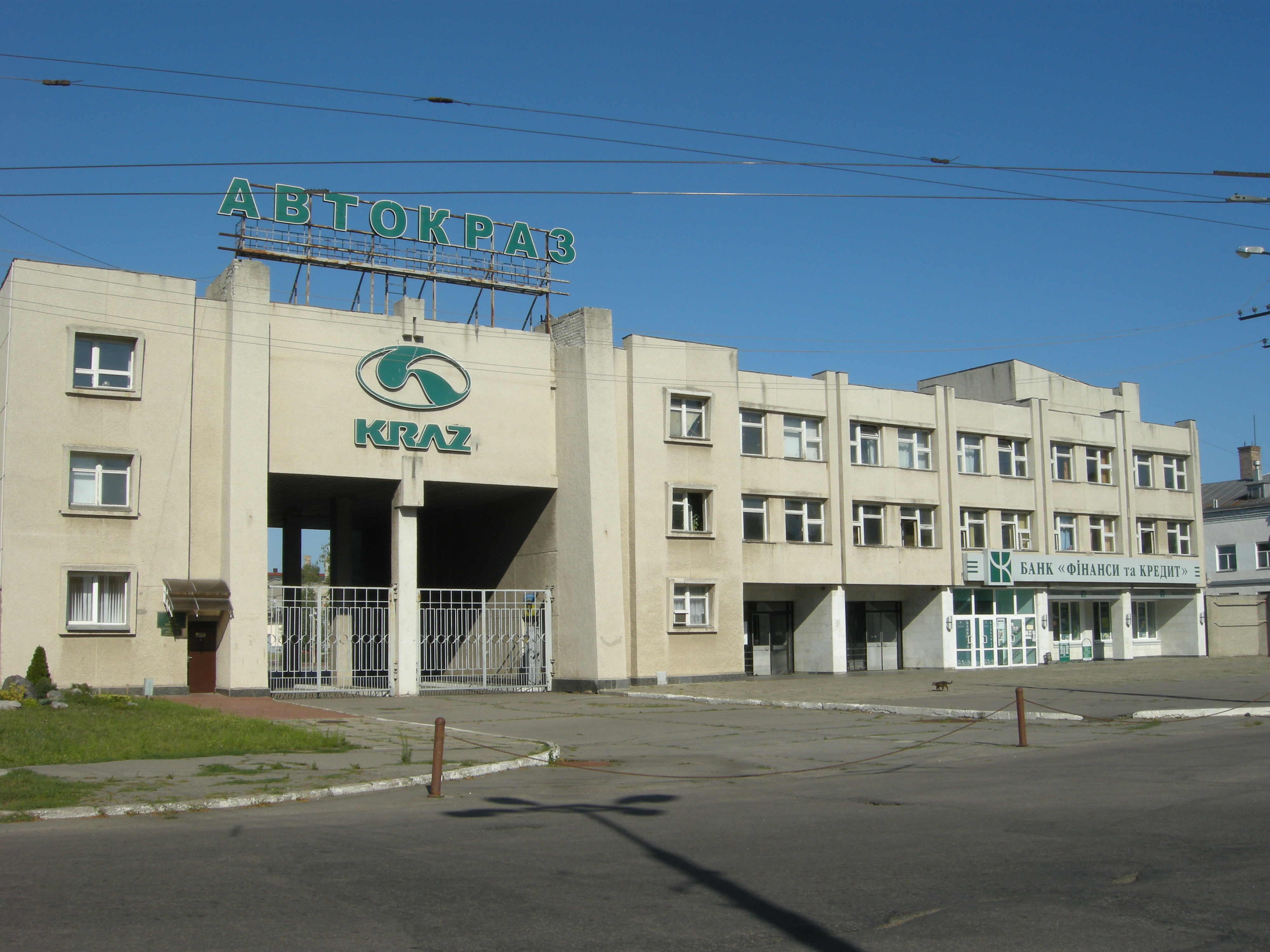 Central entrance KrAZ plant